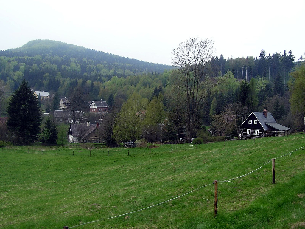 Village Rousínov (Morgenthau) in Lusatian Mountains, the Czech Republic. Česky: Vesnice Rousínov (Morgenthau) v Lužických horách, Česká republika.